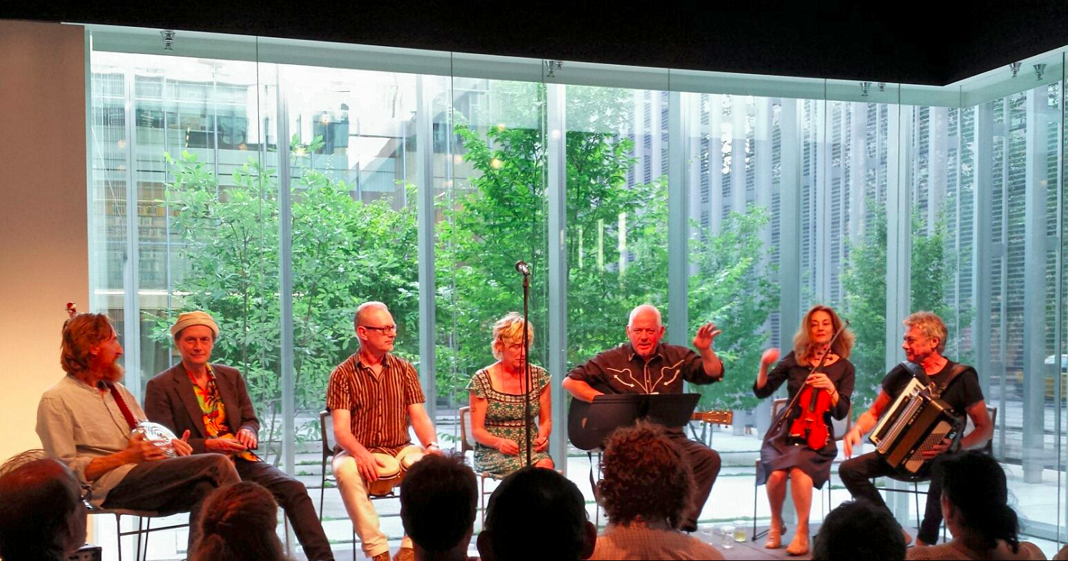 The Mekons at the Poetry Foundation on 13 July 2015.